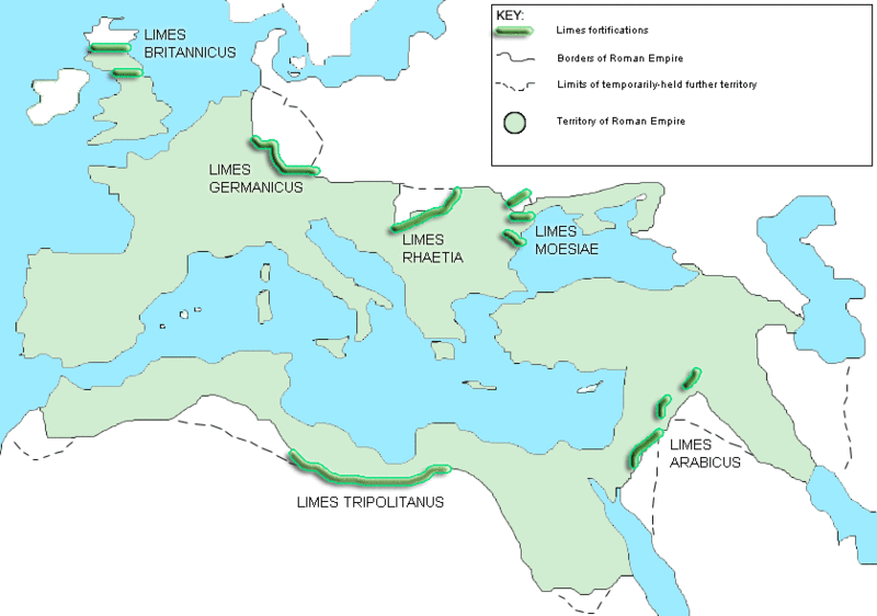 Author: Daniel Adams (me) I created this myself and release it to the public domain.